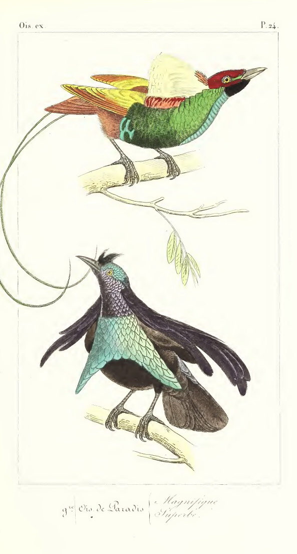 Cicinnurus magnificus and Lophorina superba from "Histoire Naturelle des Oiseaux Exotiques"